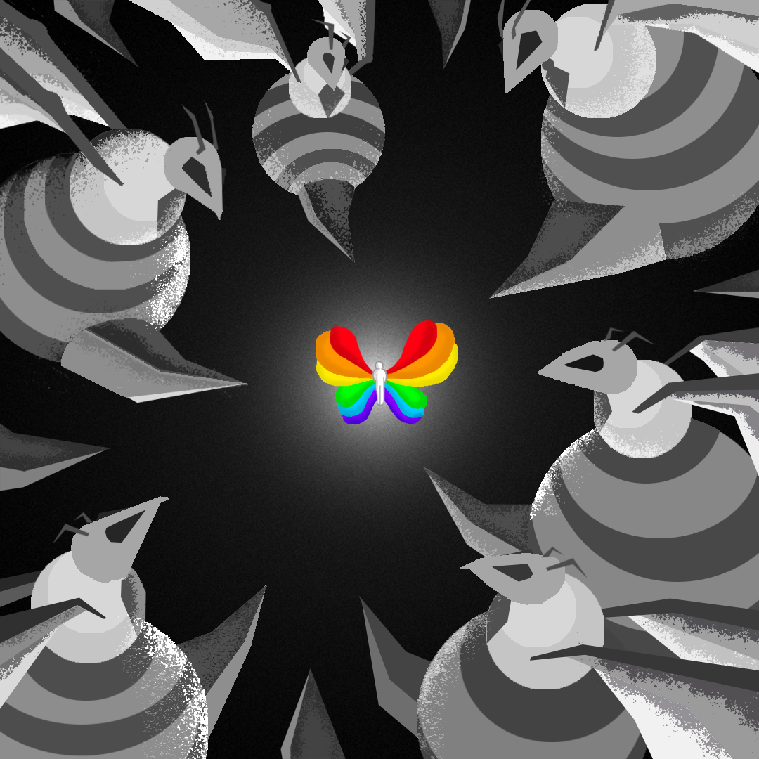 Harassment of the gay community in the workplace